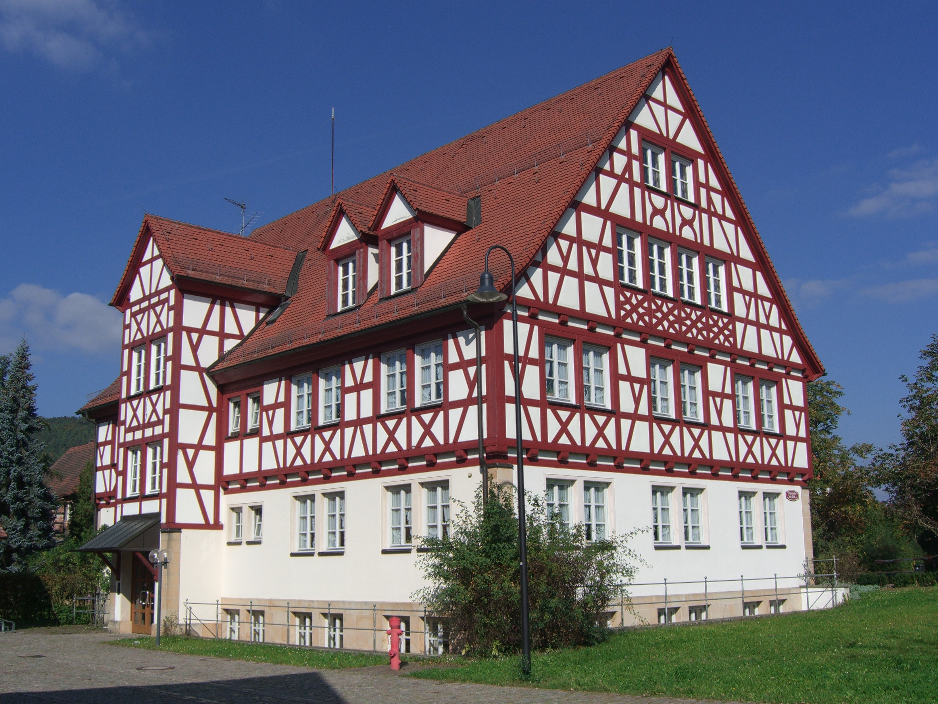 Backside of the town hall of Igensdorf in Bavaria, Germany.